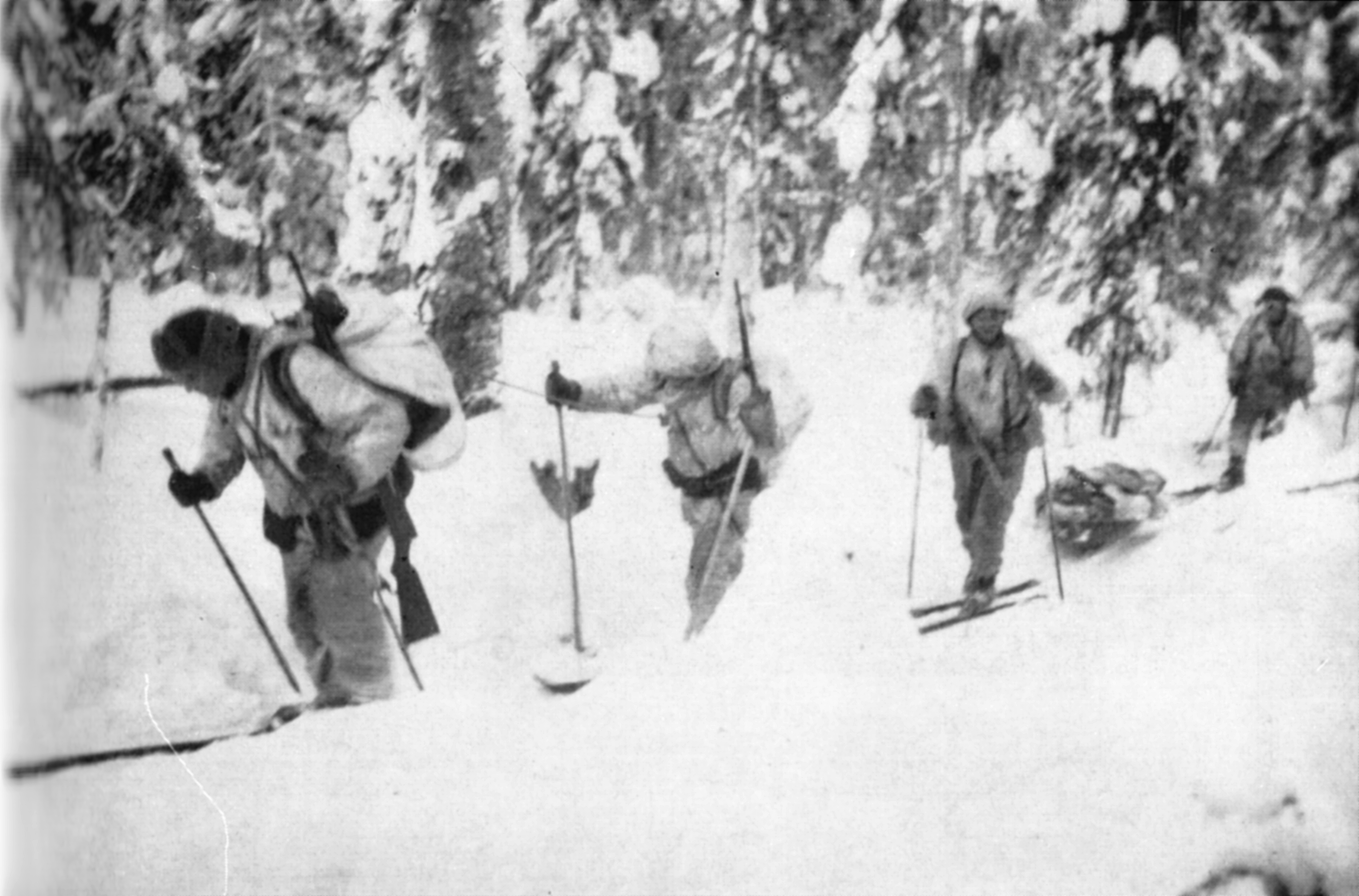 A skiing Finnish long-range reconnaissance patrol during the Continuation War.